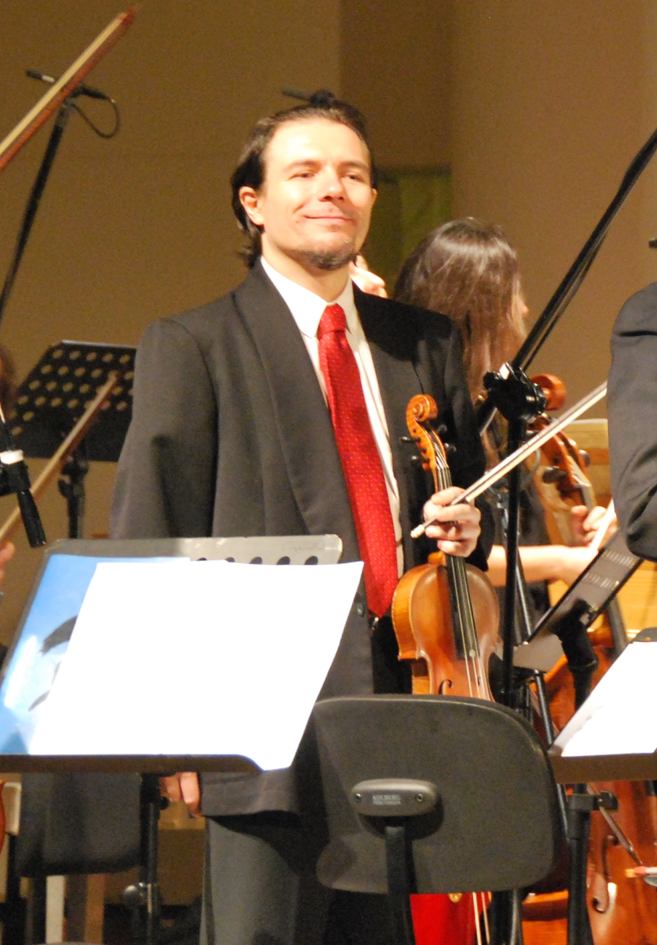 Haim Fabrizio Cipriani, Misteria Paschalia Festival, Kraków Philharmonic, 04.04.2010.